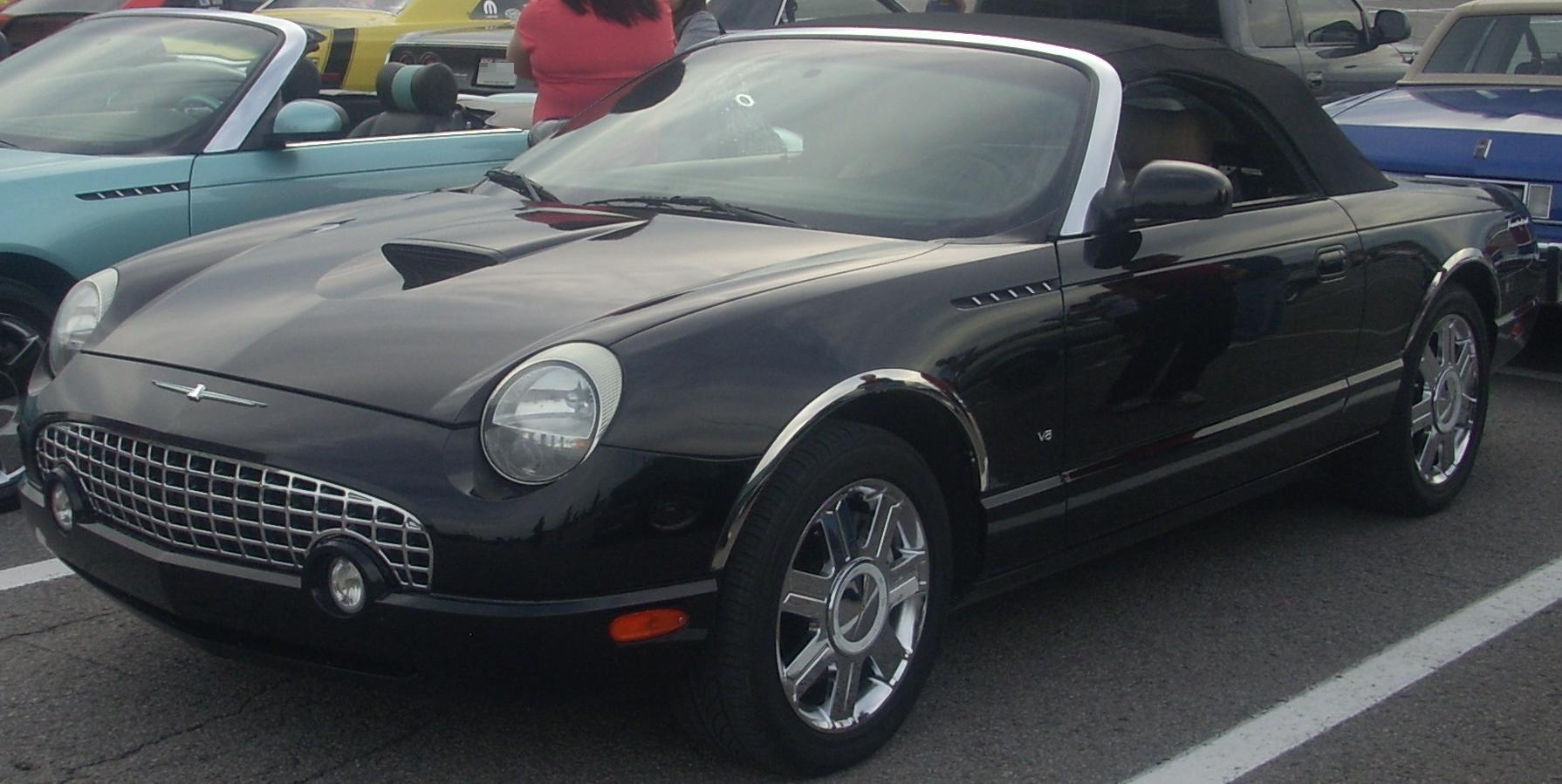 Ford Thunderbird photographed in Laval, Quebec, Canada at Les chauds vendredis 2010.